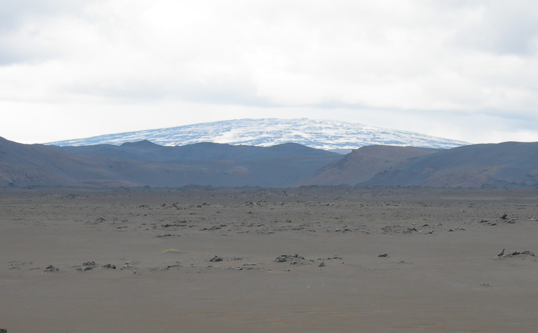 Post-glacial monogenetic shield volcano Trölladyngja, north Iceland highland.